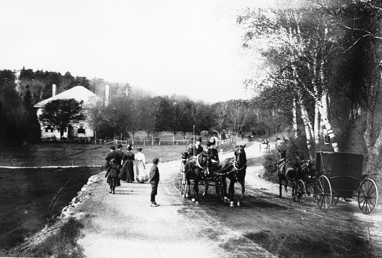 Photograph, Park ranger's house, Mount Royal Park, Montreal, QC, 1899, Silver salts on glass - Gelatin dry plate process - 6 x 8 cm